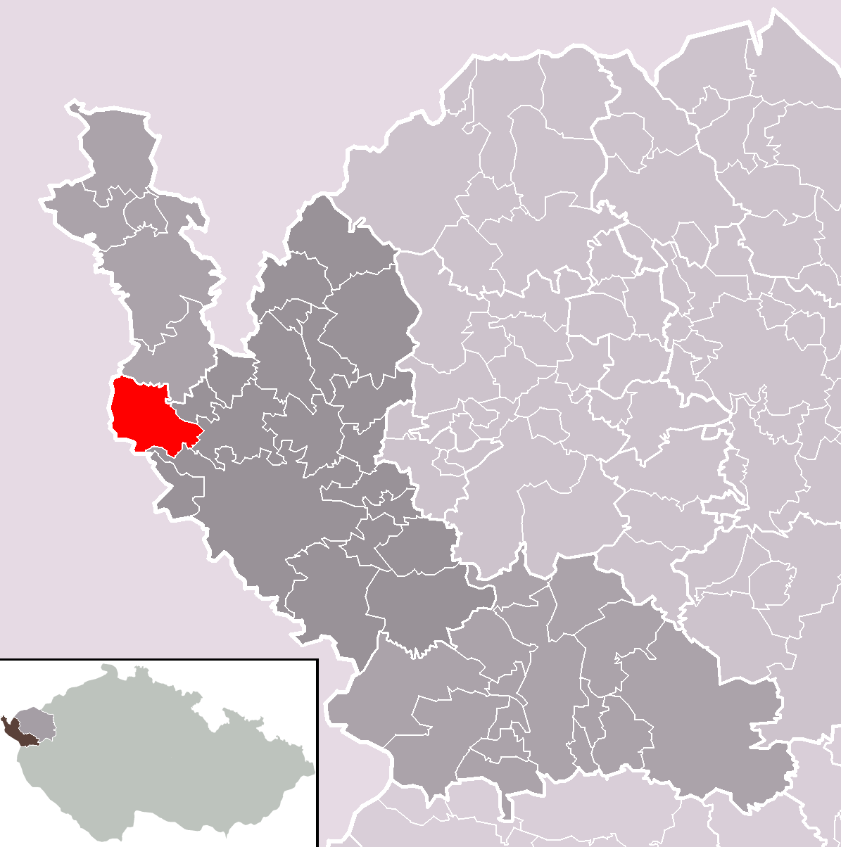 Location of Libá municipality within Cheb District and administrative area of Cheb as a Municipality with Extended Competence.